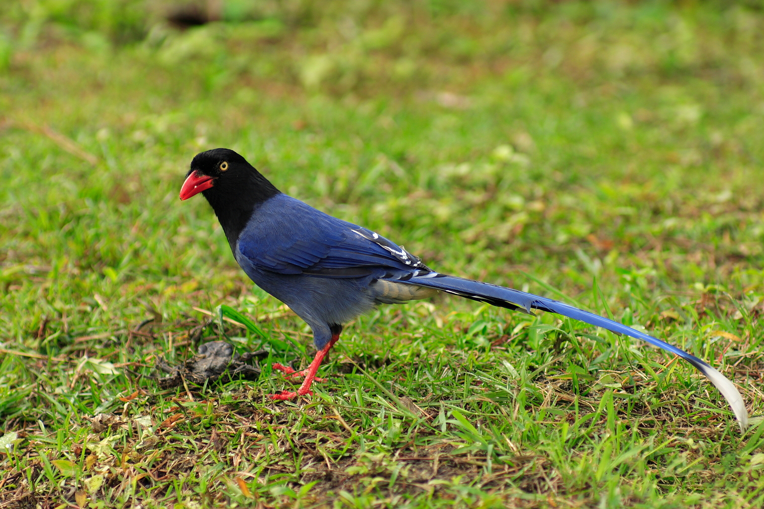 Taiwan Blue Magpie Urocissa caerulea, TaiwanBân-lâm-gú: 長尾山娘 (Urocissa caerulea)